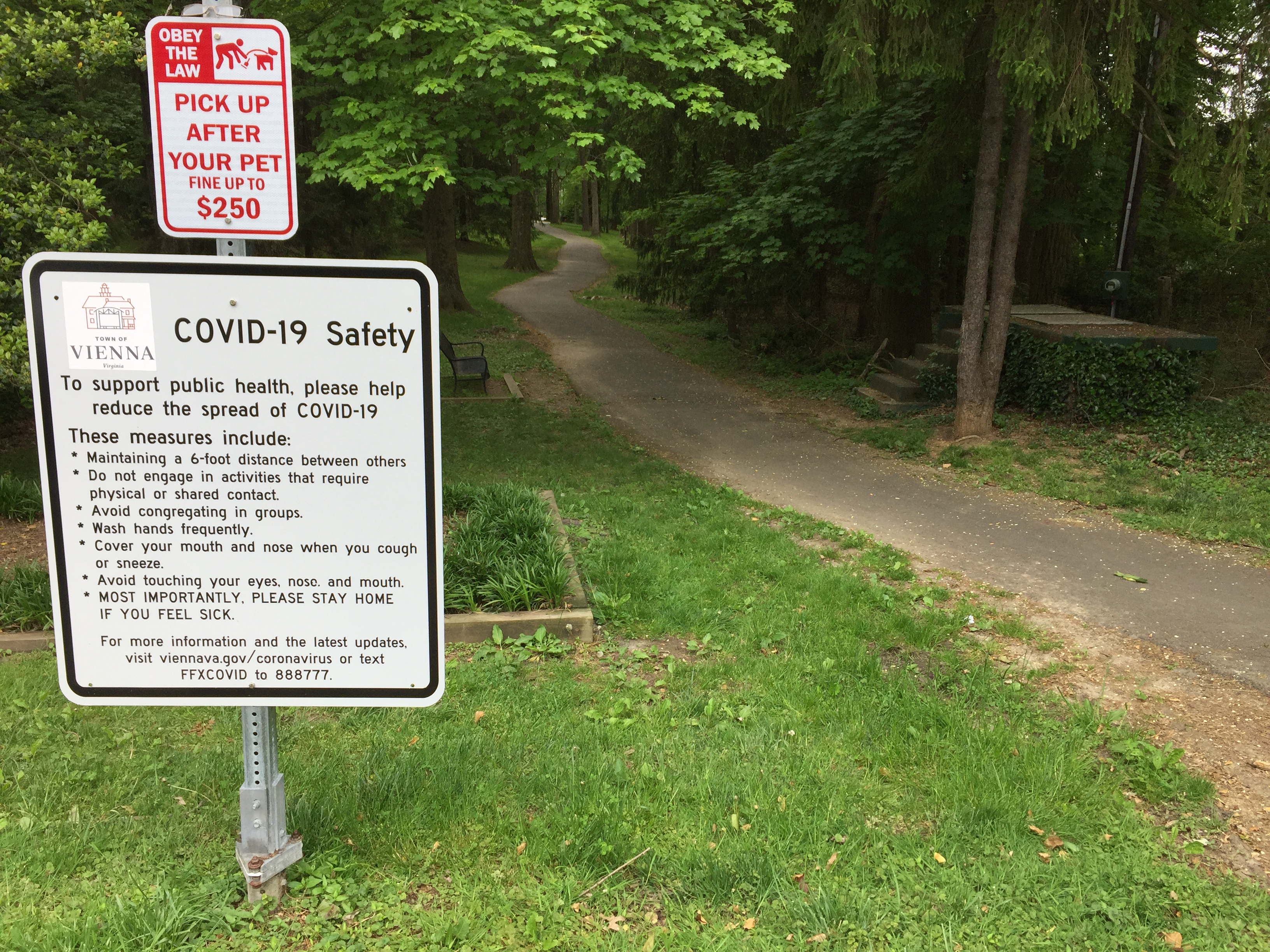 A COVID-19 sign at the entrance to Glyndon Park in Vienna, Virginia. This sign is made of metal rather than plastic or paper, indicating that the listed measures are expected to be necessary for an extended period.